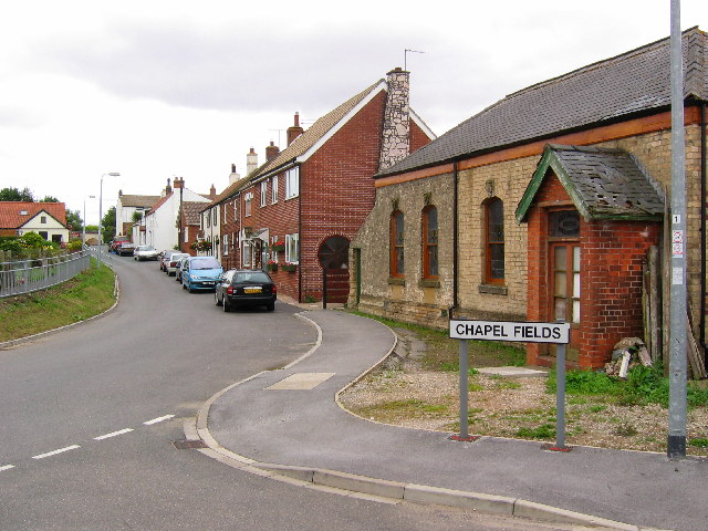 Village of Coniston, East Riding of Yorkshire, England.View from the west side of the village looking east. Coniston is situated on the west side of the A165 by-pass, built in 1970 running south to Hull. Within this grid square is Lane End Farm on the west edge. Seen here on the right is the now derelict Primitive Methodist Church. Coniston was known as Coningesbi in 1086, probably an Anglican, Scandinavian mixed name, possibly meaning 'Kings Farm'.